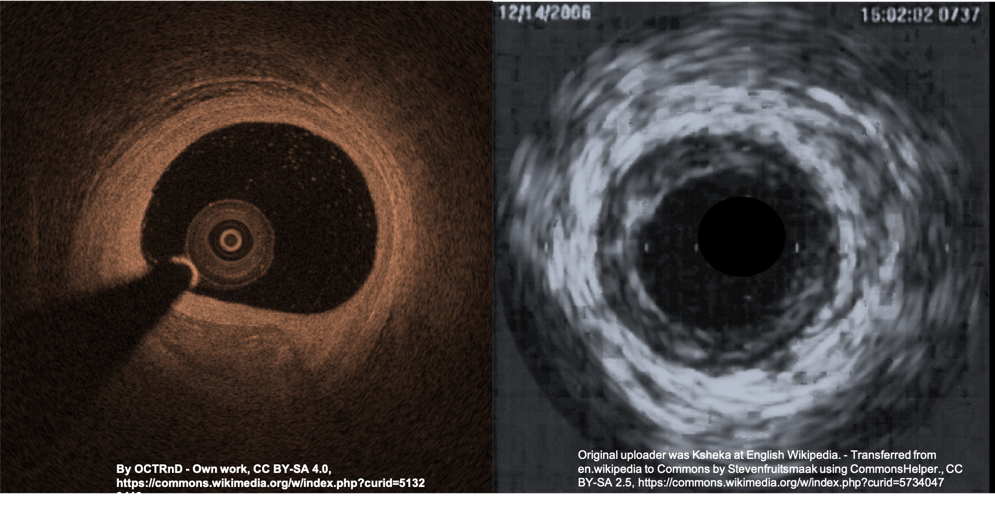 Using pre-existing images from Wikimedia Commons, this image highlights OCT and IVUS side by side. This image uses the: - OCT picture from OCTRnD - Own work, CC BY-SA 4.0, - IVUS picture from Ksheka at English Wikipedia. - Transferred from en.wikipedia to Commons by Stevenfruitsmaak using CommonsHelper., CC BY-SA 2.5